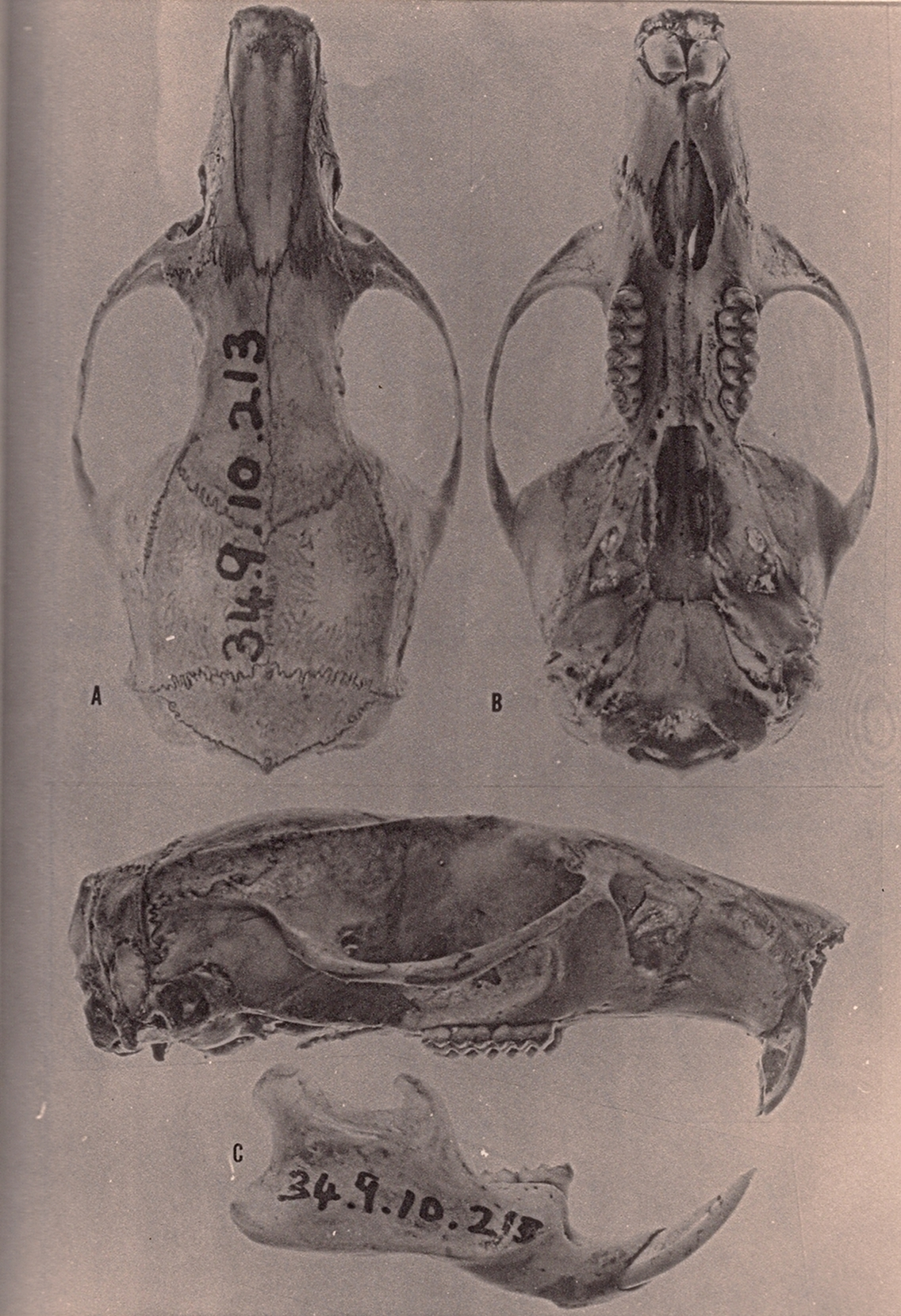 Skull of Mindomys hammondi (as Oryzomys (Megalomys) hammondi in the original).